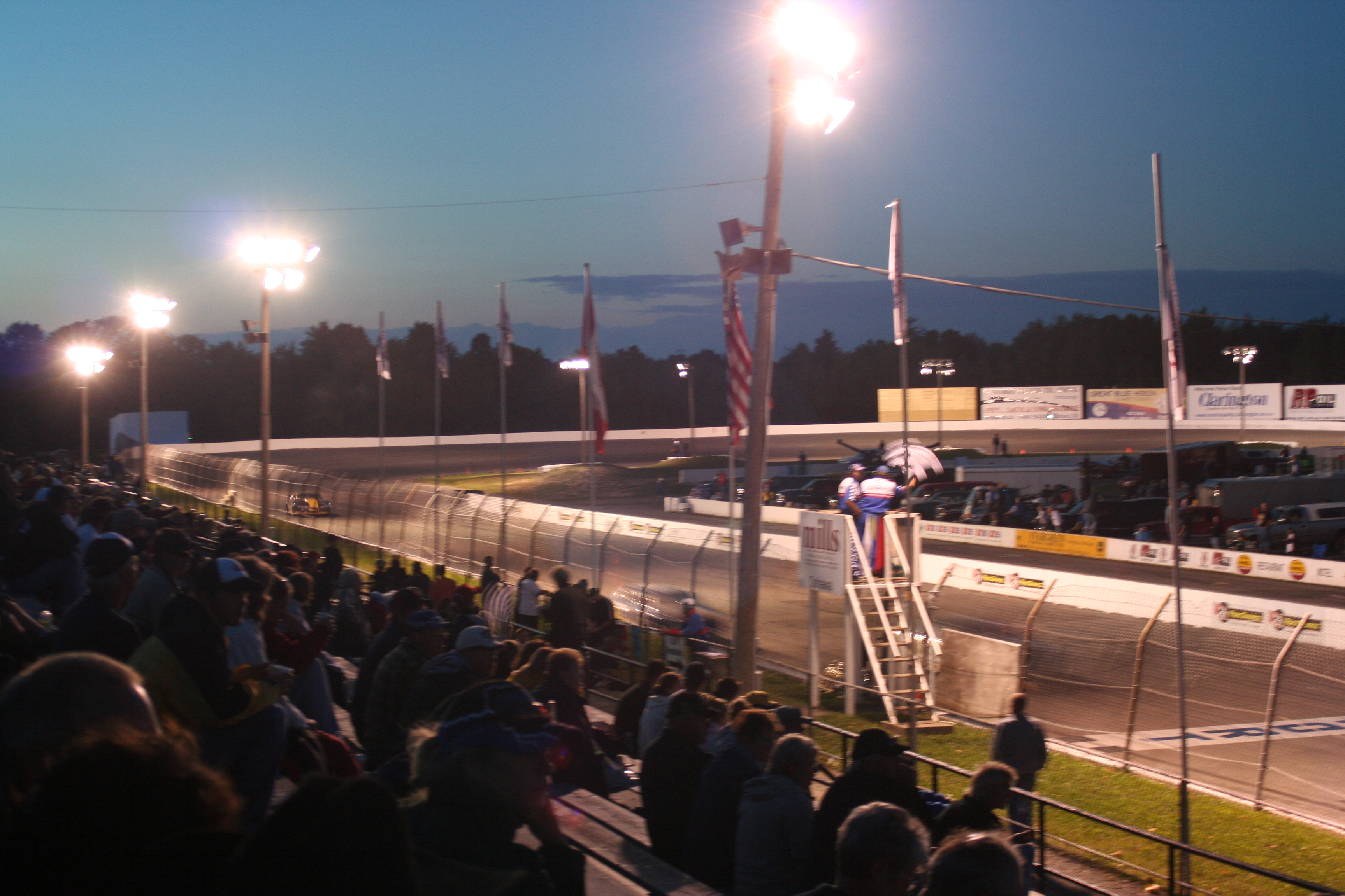 Mosport Speedway September 2005